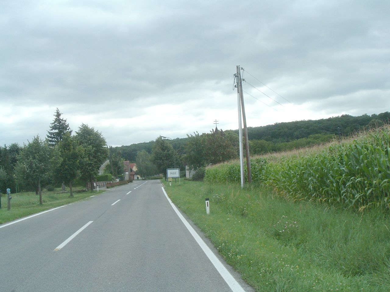 Höll (Pokolfalu), Burgenland